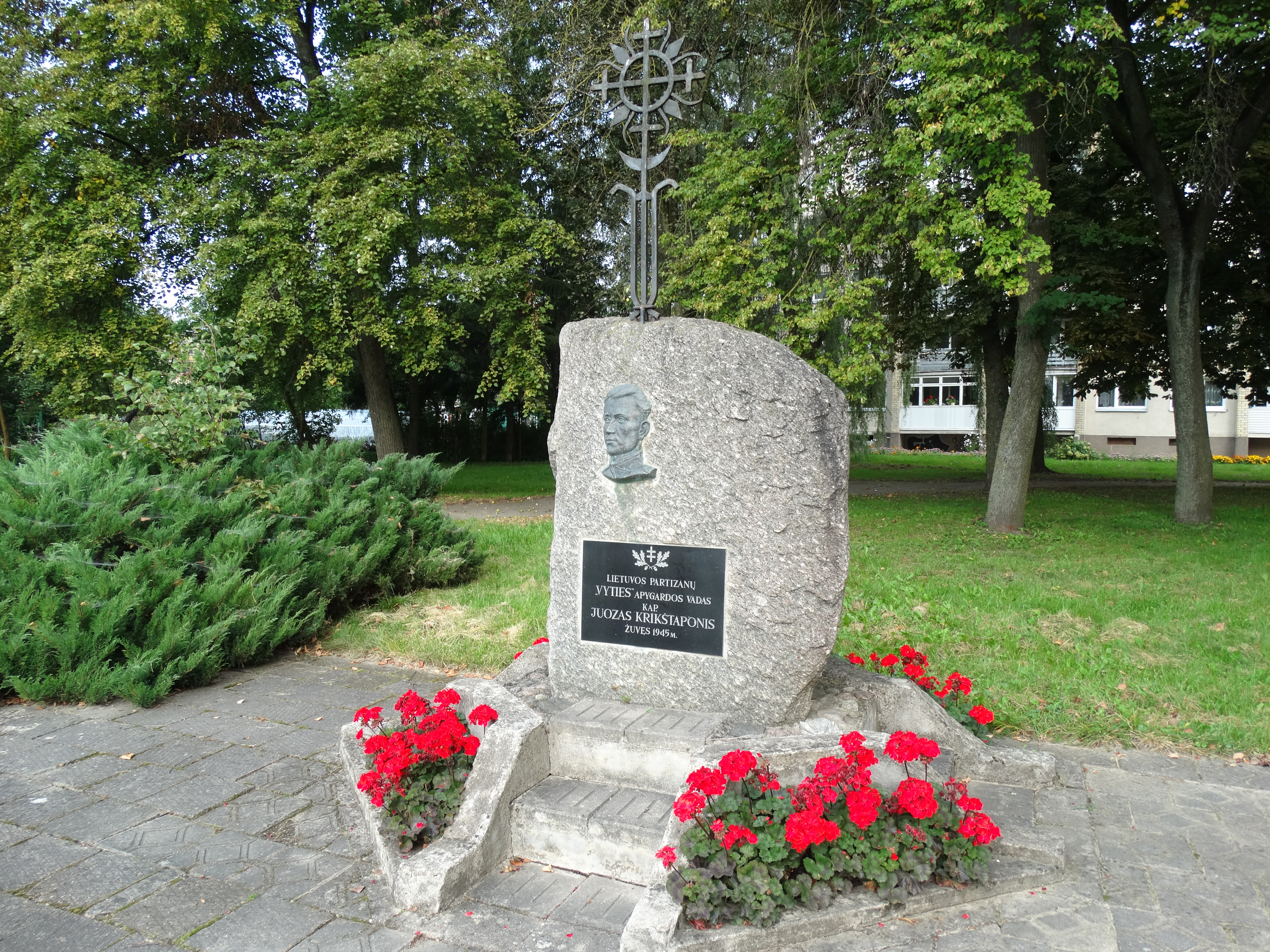 Memorial stone to Juozas Krikštaponis, Ukmergė, Lithuania